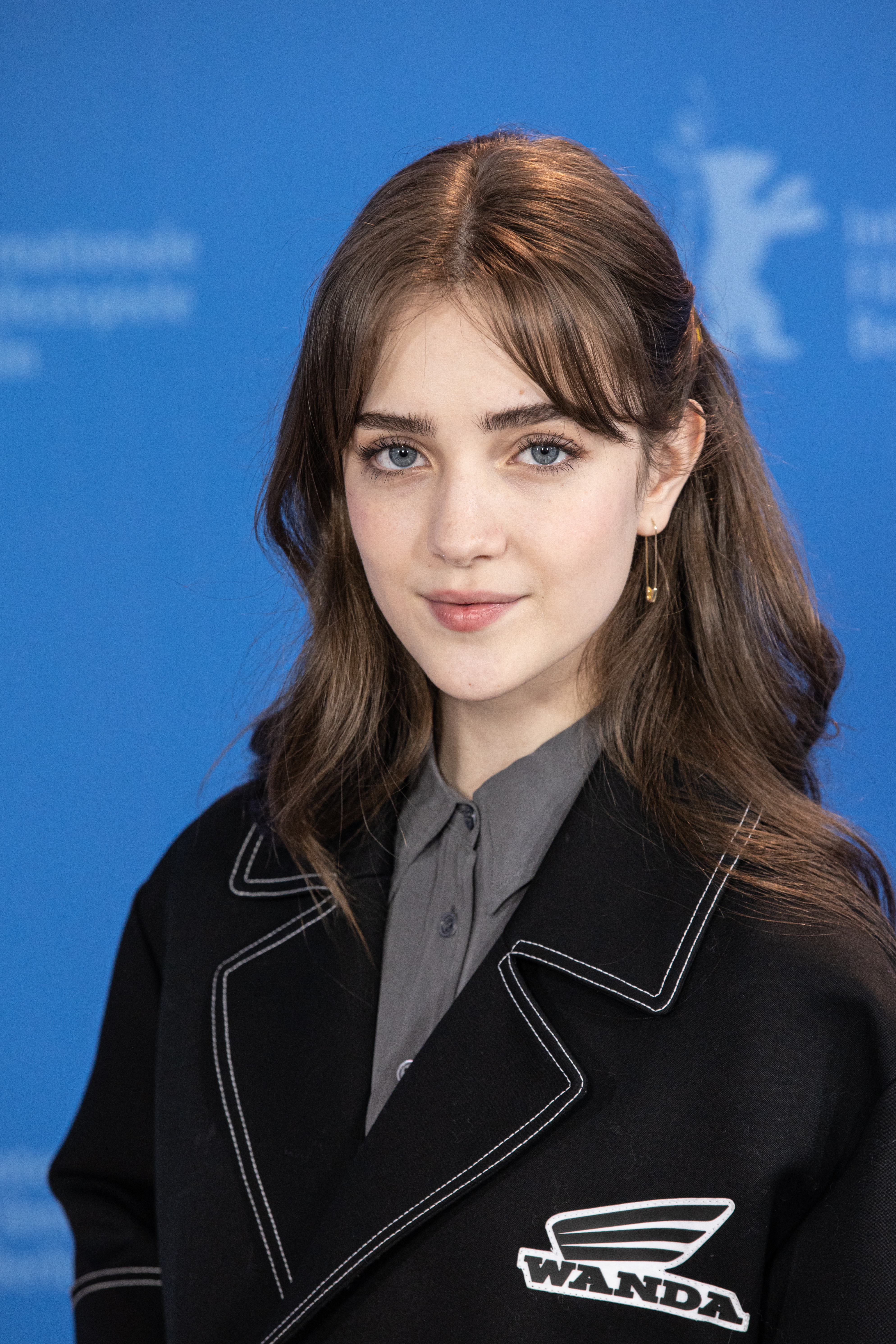 Actress Talia Ryder at the Berlinale 2020